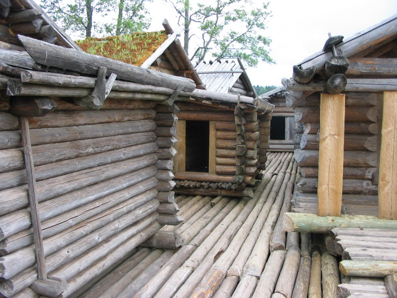 Āraiši lake dwelling site